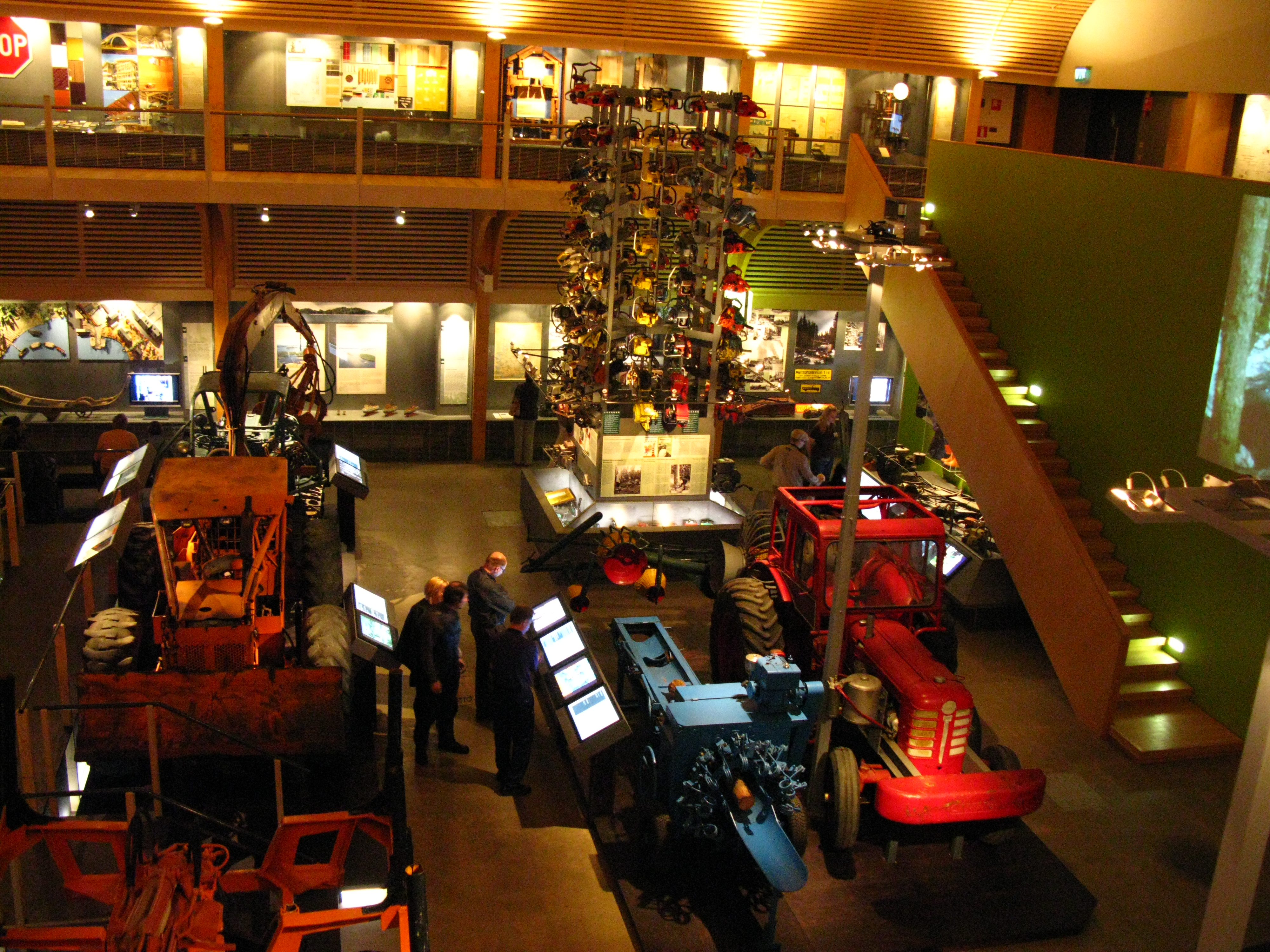 The forestry museum Lusto's exhibition hall, Punkaharju, Finland